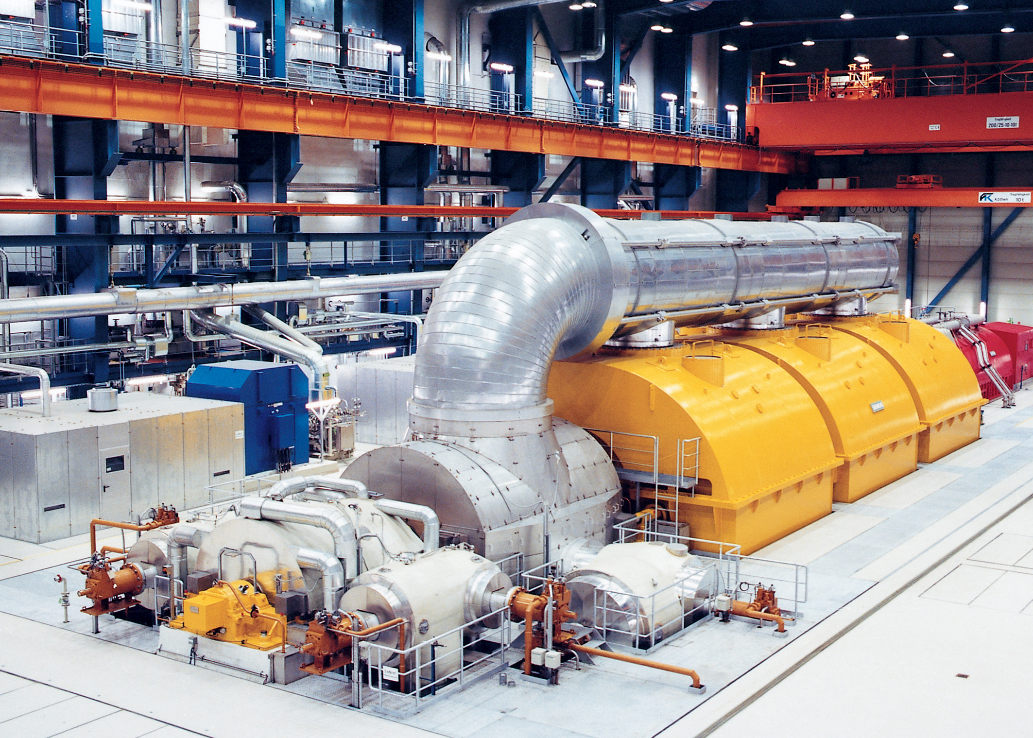 Turbogenerator produced by Siemens, Germany.